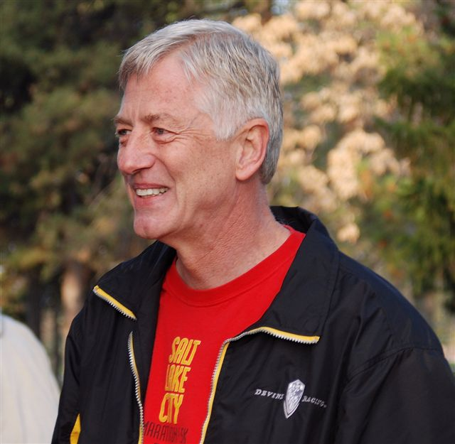 Salt Lake City Mayor Rocky Anderson pumped us up to run in the Salt Lake Marathon.